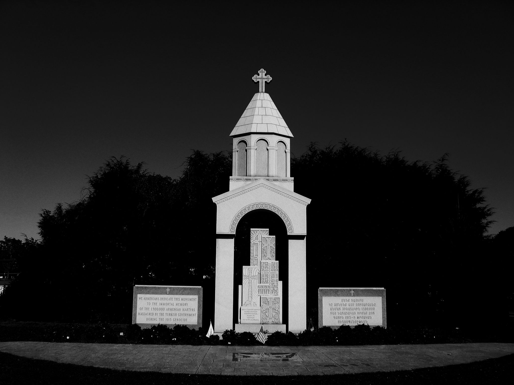 The Armenian Martyrs Memorial in Providence's North Burial Ground (Providence, Rhode Island). A memorial to the Armenian Genocide.